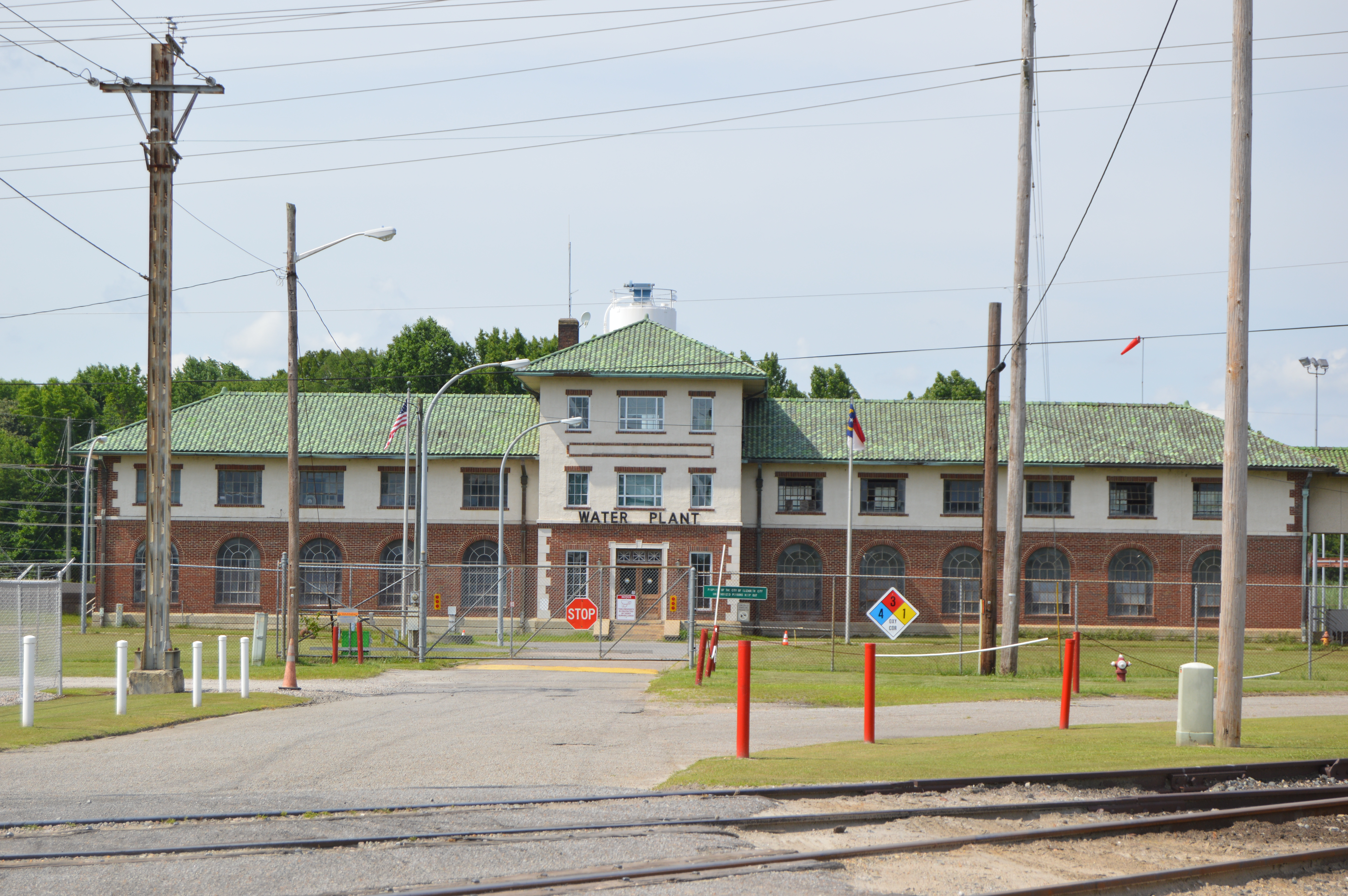 Front of the Elizabeth City Water Plant, located at the northern end of Wilson Street in Elizabeth City, North Carolina, United States. Built in 1926, it is listed on the National Register of Historic Places.